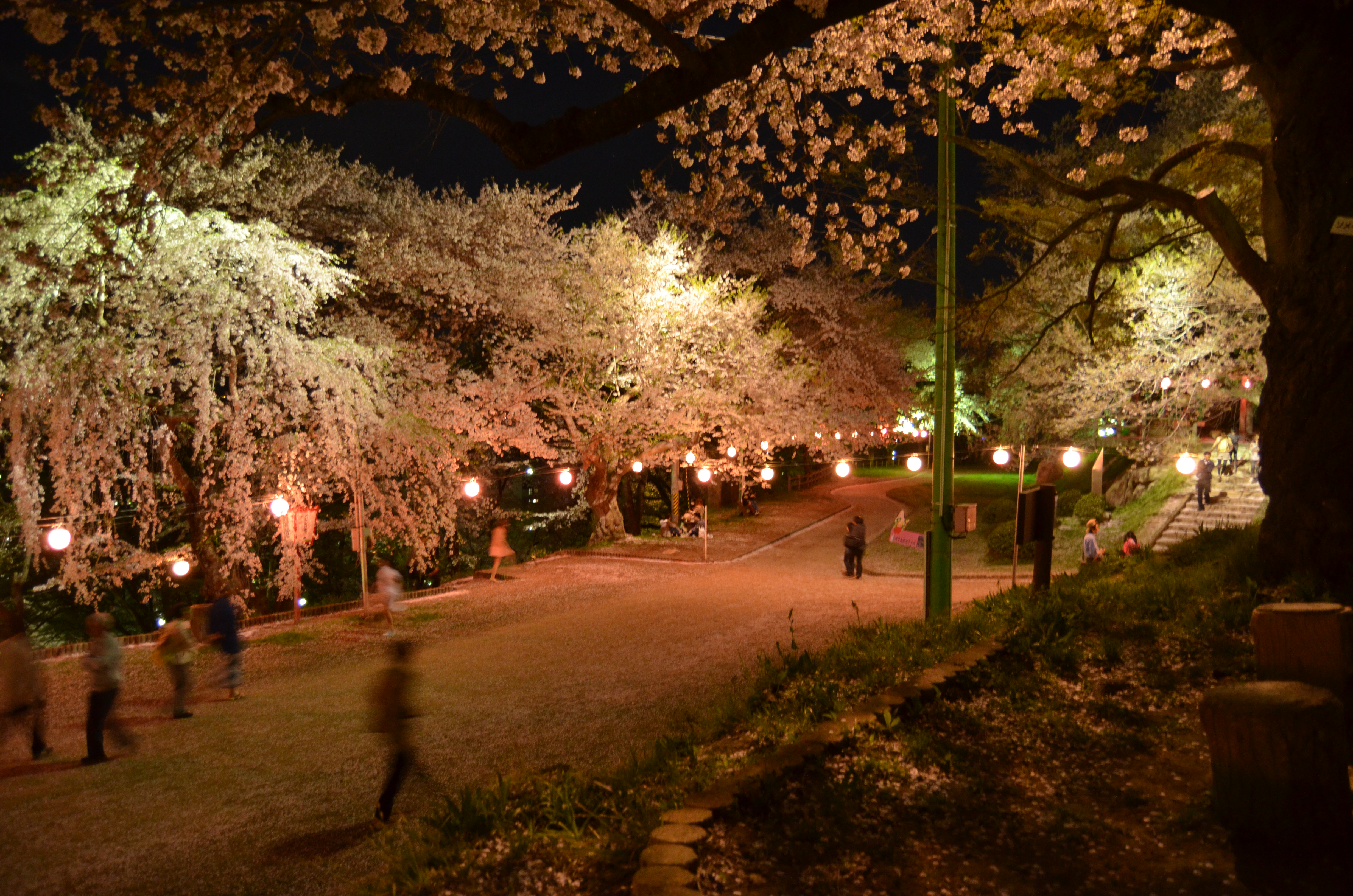 Eboshiyama is one of the 100 places in Japan to view cherry blossoms. This picture shows the illumination of the mountain during the peak viewing season.